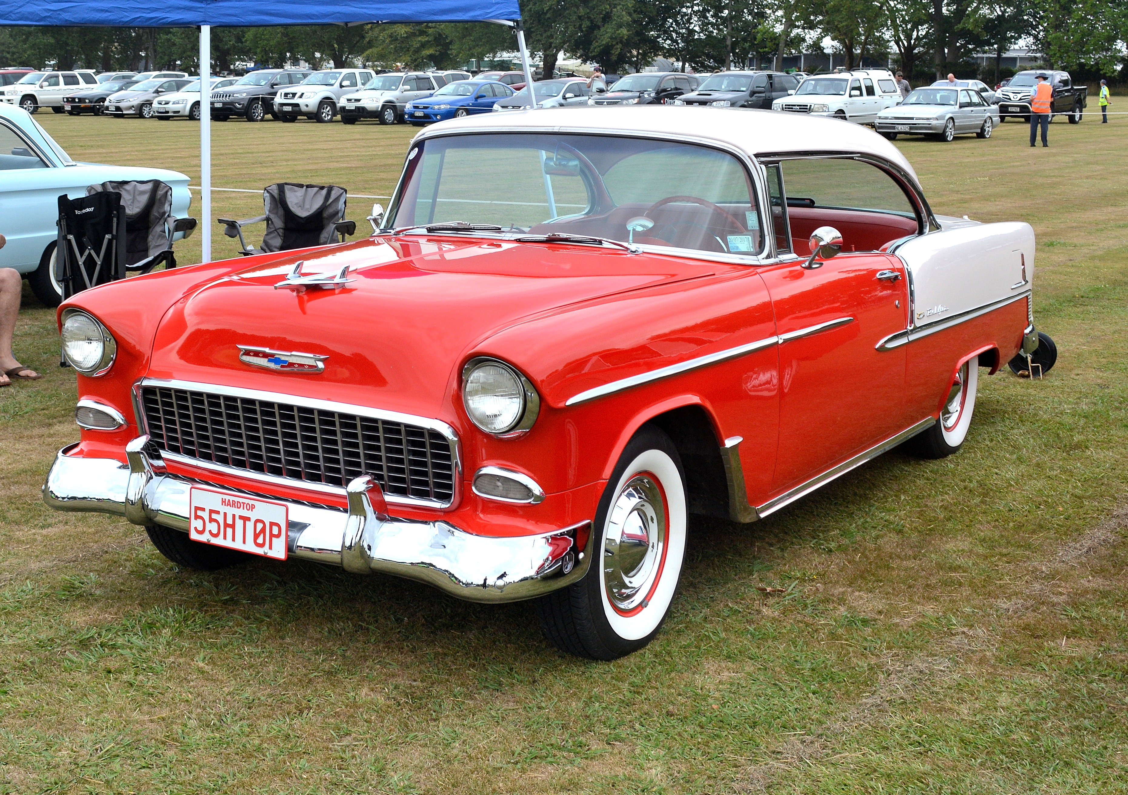 At Morrinsville 2017,New Zealand